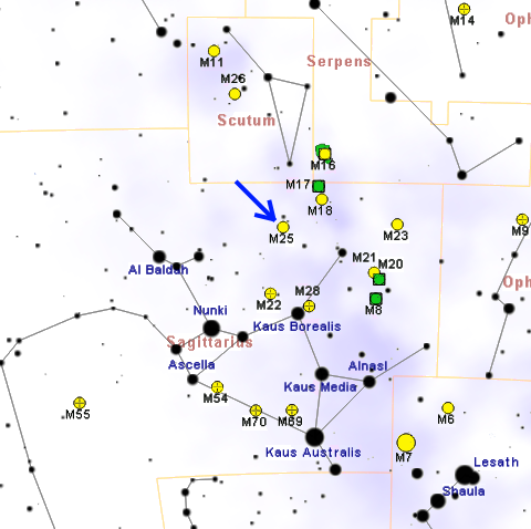 Map of M25